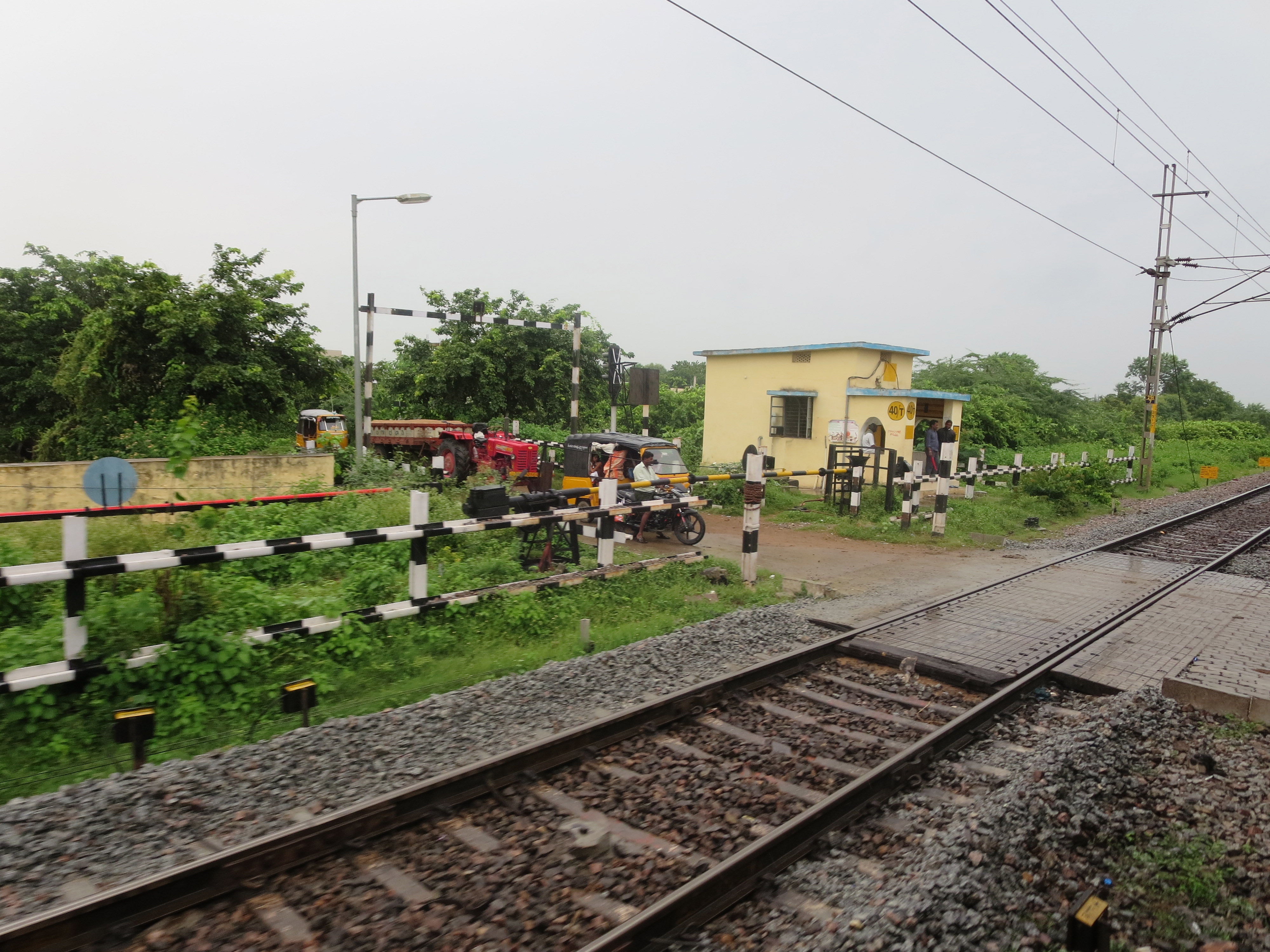 A manned railway crossing in Karimnagar District, Telangana, India